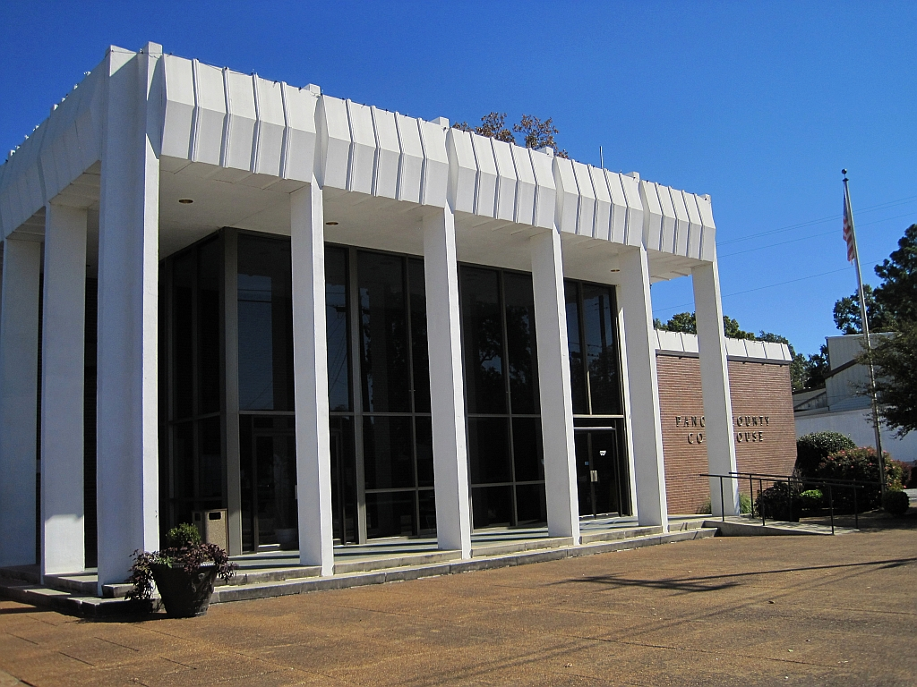 Batesville, Mississippi. Panola County Court